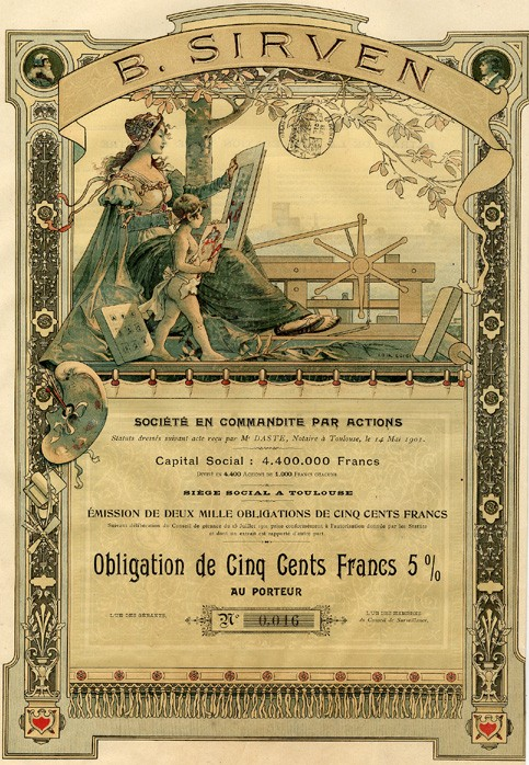 500 FRF 5% bond (Toulouse, 1901) designed by French painter and engraver Luigi Loir (1845-1916).